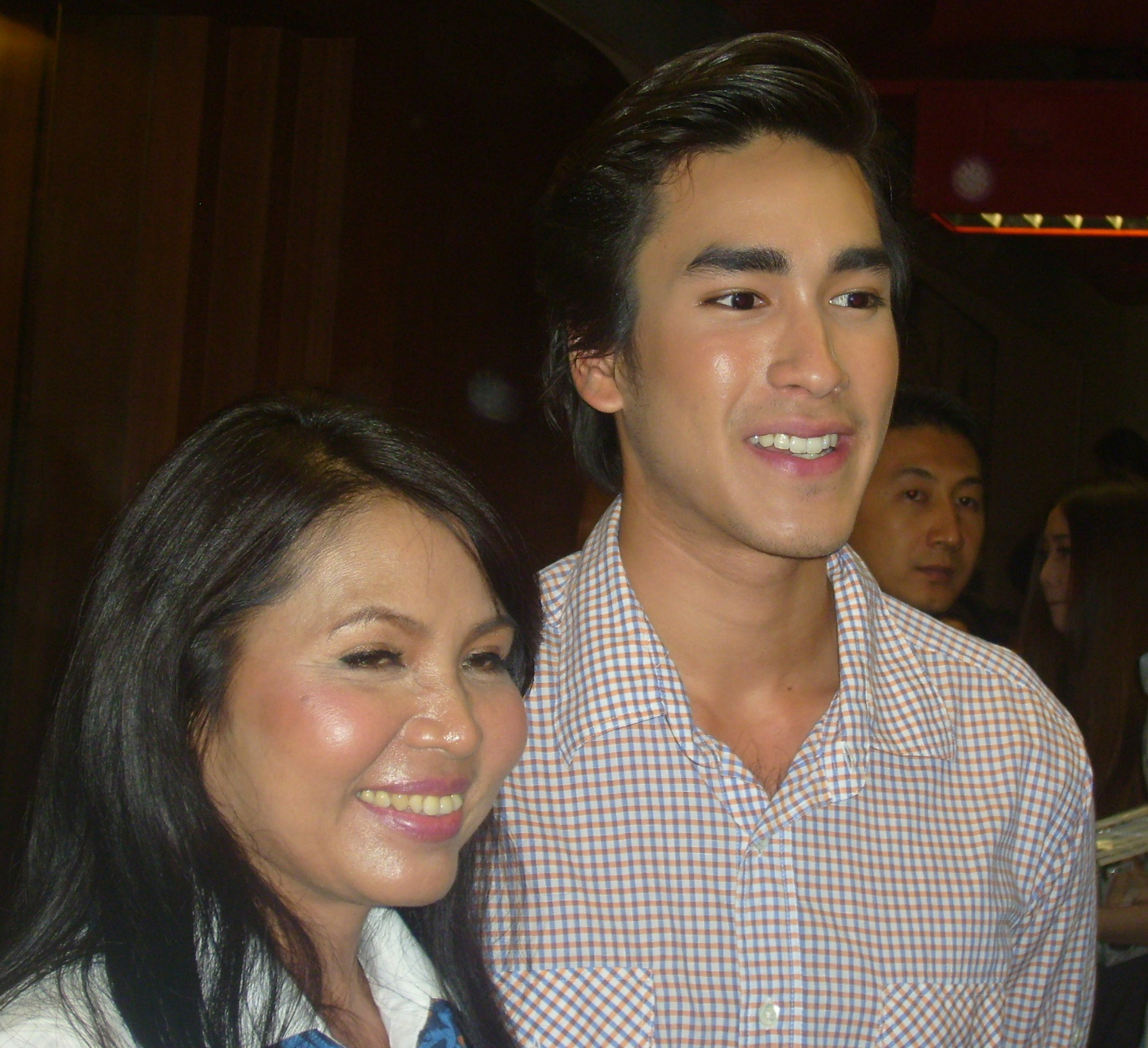 Sudarat & Nadech Kugimiya